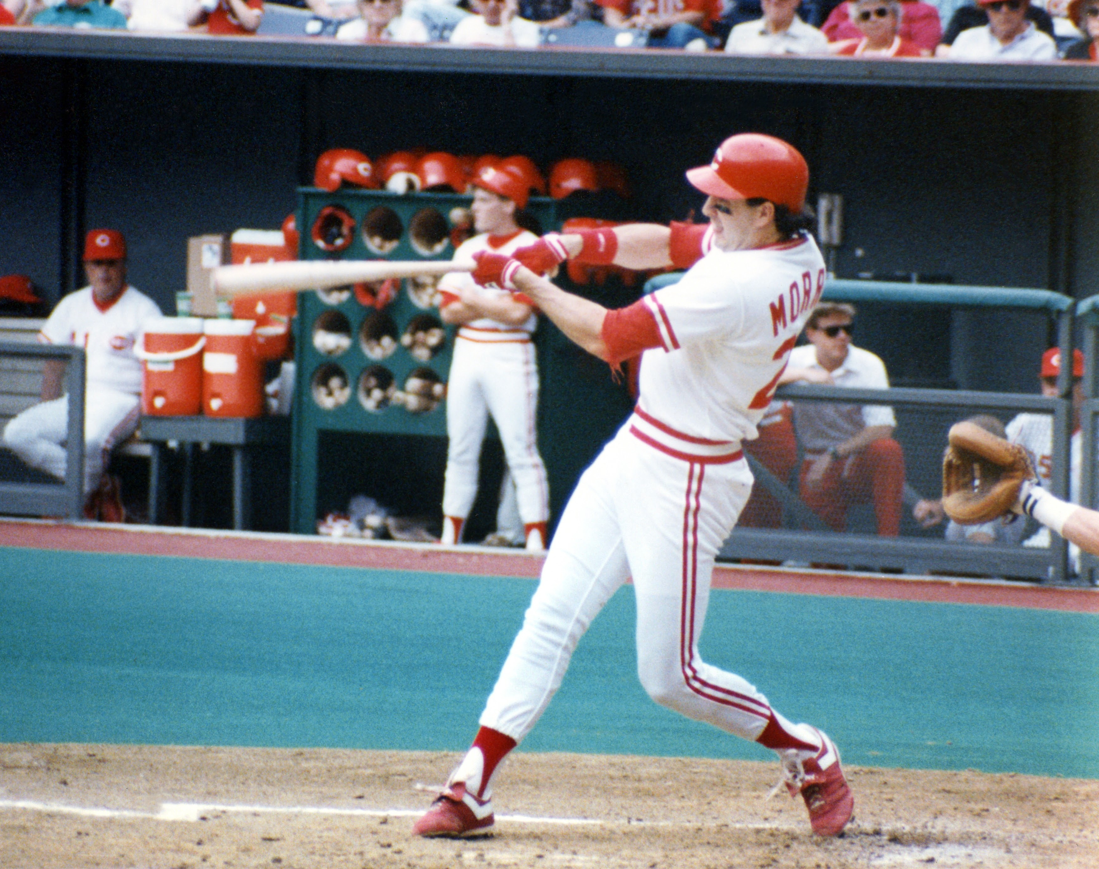 Hal Morris playing for the Cincinnati Reds in Riverfront Stadium in October, 1990